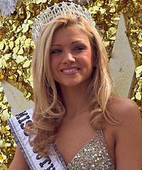 Lacie Lybrand, Miss South Carolina USA 2006, in a St. Patrick's Day Parade in Columbia, SC